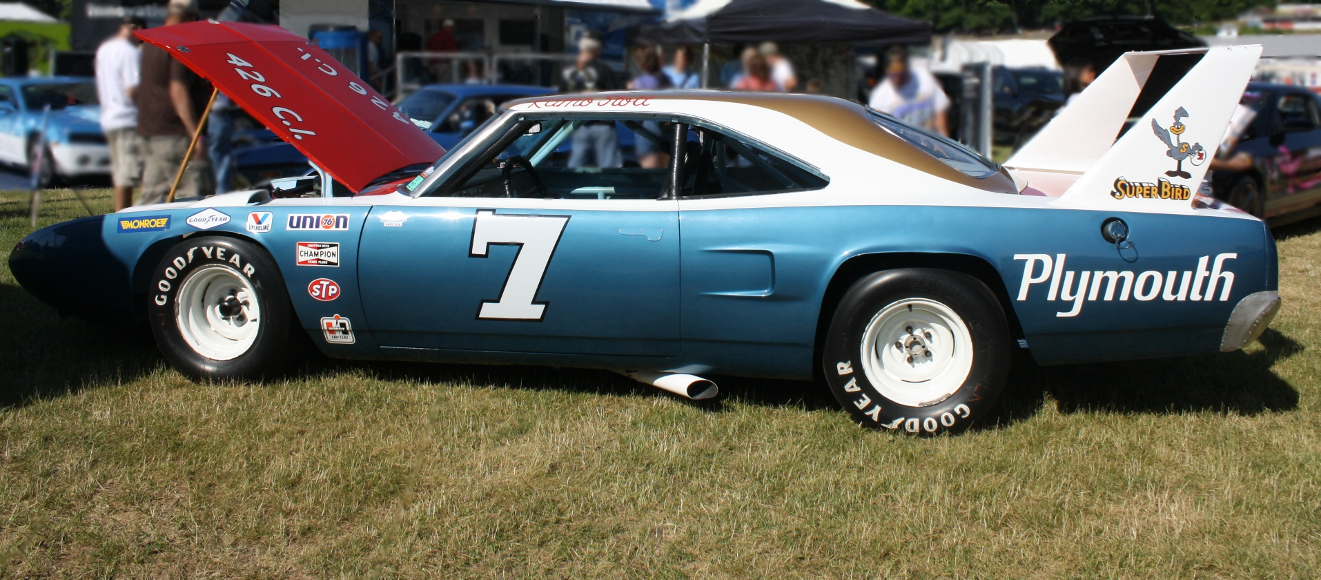 The Plymouth Superbird stock car that Ramo Stott raced in mainly USAC Stock Car between 1970 and 1972. He also used the car in some NASCAR Winston Cup and ARCA events.